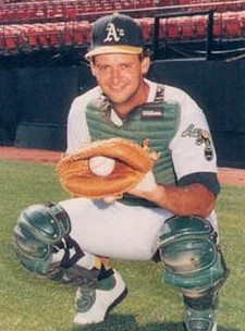 Image cropped from a baseball card of Terry Steinbach from the 1988 Mother's Cookies Oakland Athletics set.